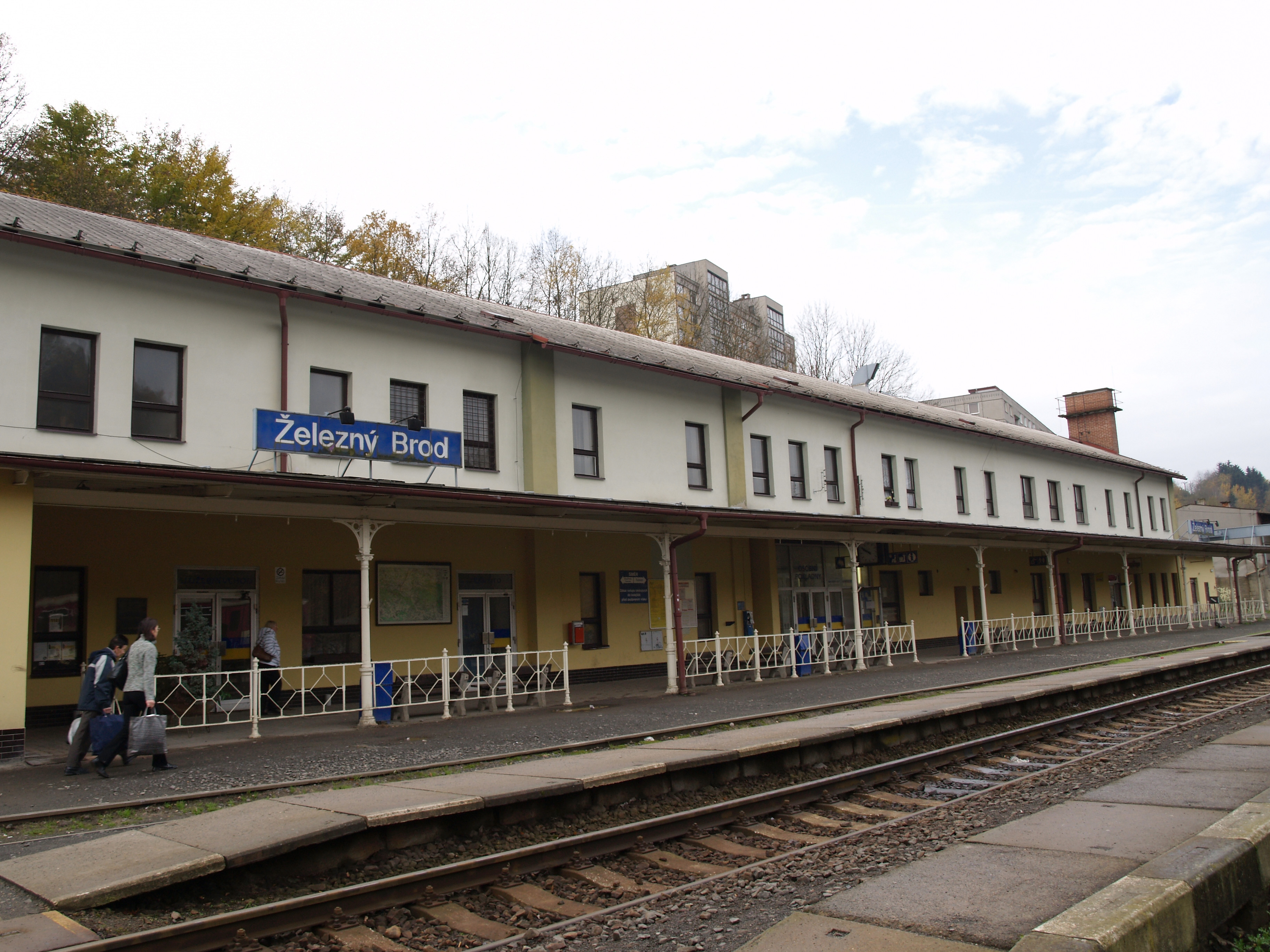 Train stations in Czech town Železný Brod